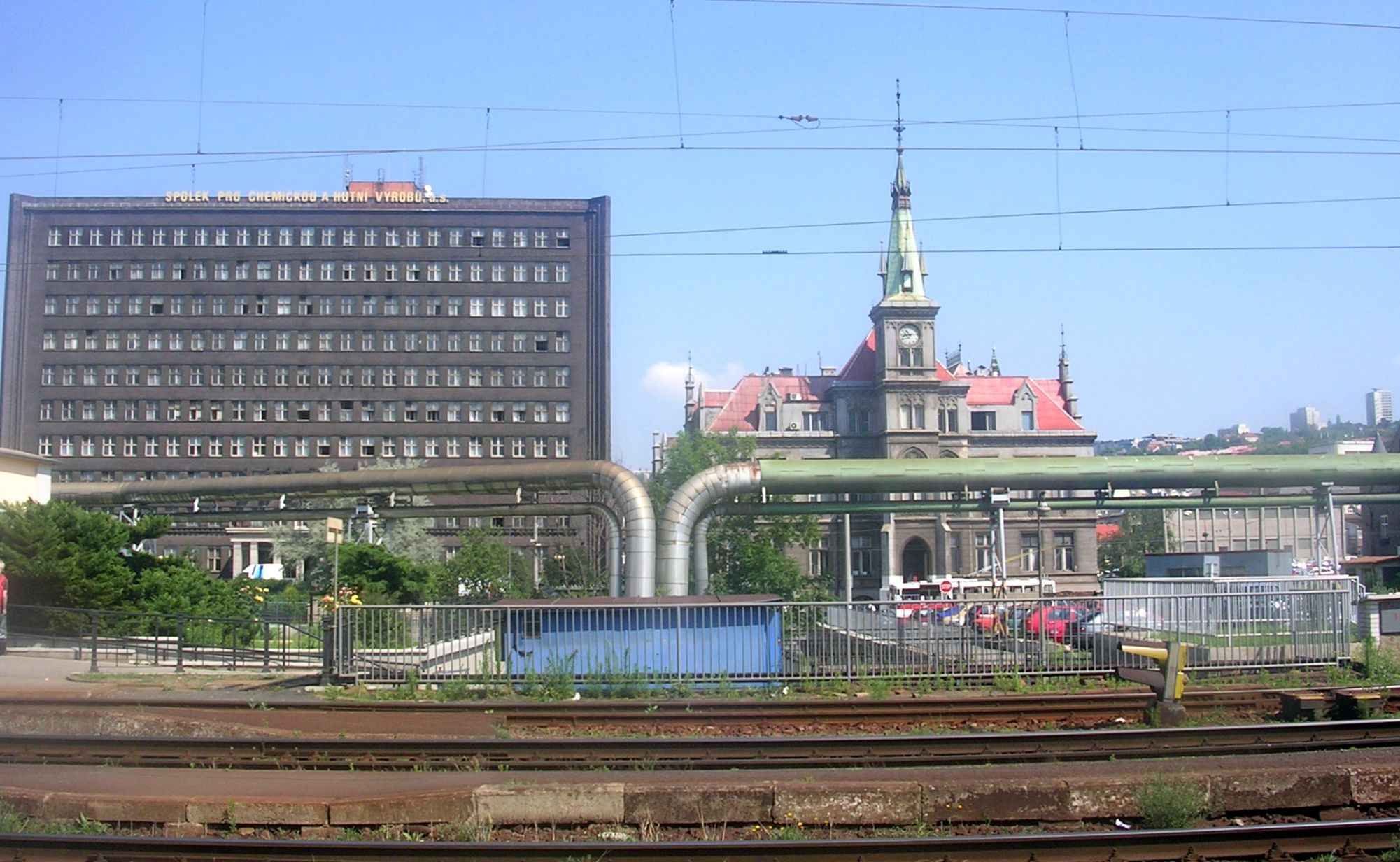 Ústí nad Labem, the Czech Republic. - Google Maps - Google Earth